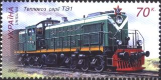 Stamp of Ukraine